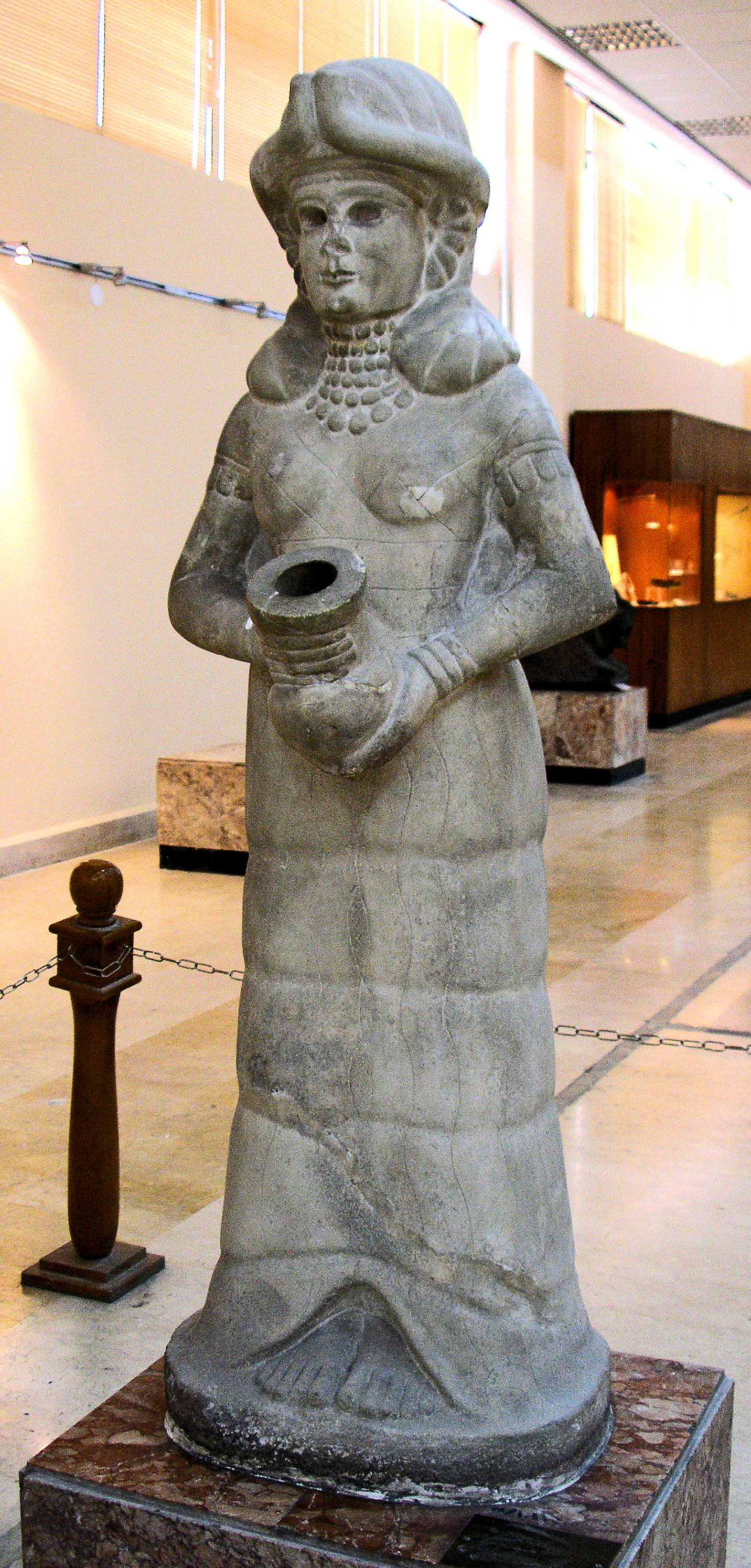 Mari sculpture